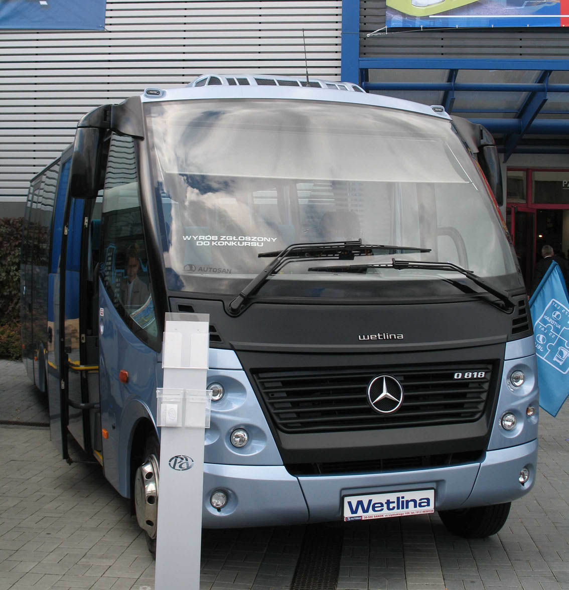 Autosan A8V Wetlina bus prototype - Transexpo 2007 exhibition, Kielce, Poland. Built 2007. Base on Mercedes-Benz Vario O 818 chassis.